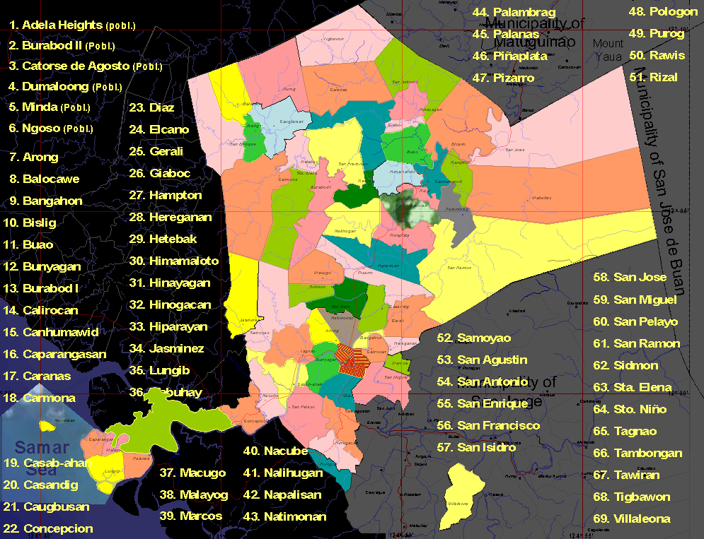 Barangays of Gandara